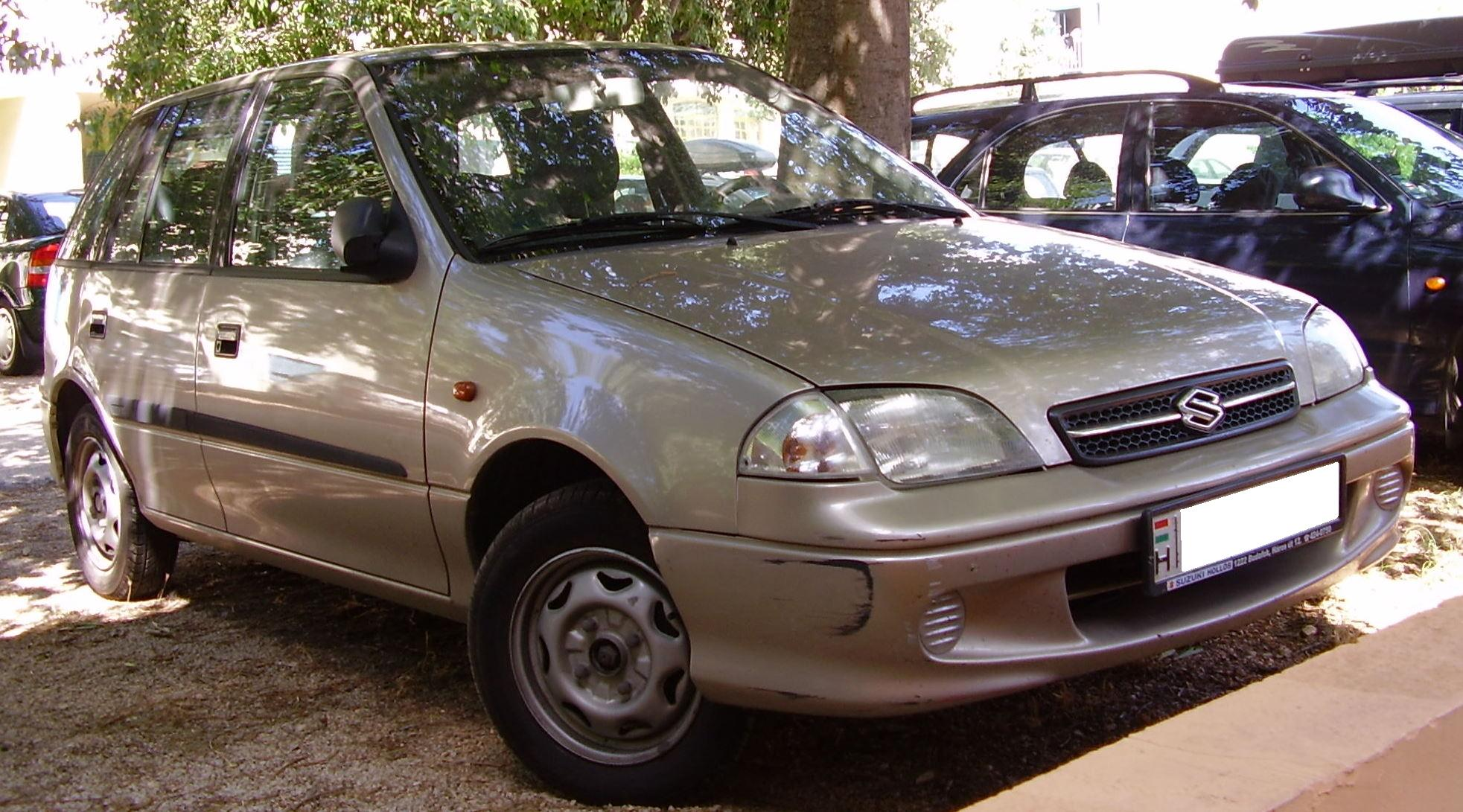 Suzuki Swift in Sveti Filip i Jakov (Croatia)